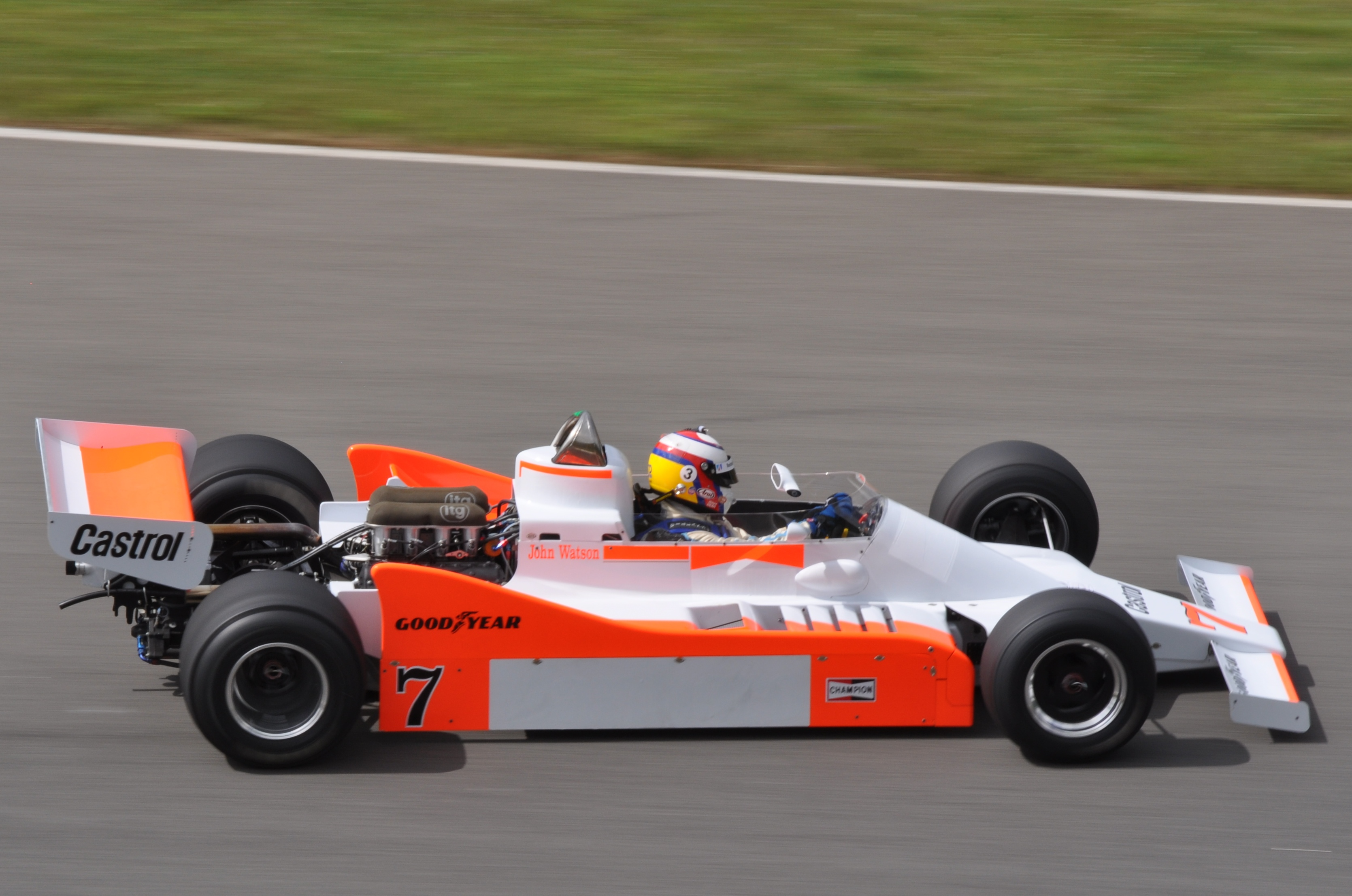 Zak Brown drives his ex-John Watson McLaren M28 Formula One racing car through The Esses at Circuit Mont-Tremblant, during the 2010 Legends of Motorsport meeting.